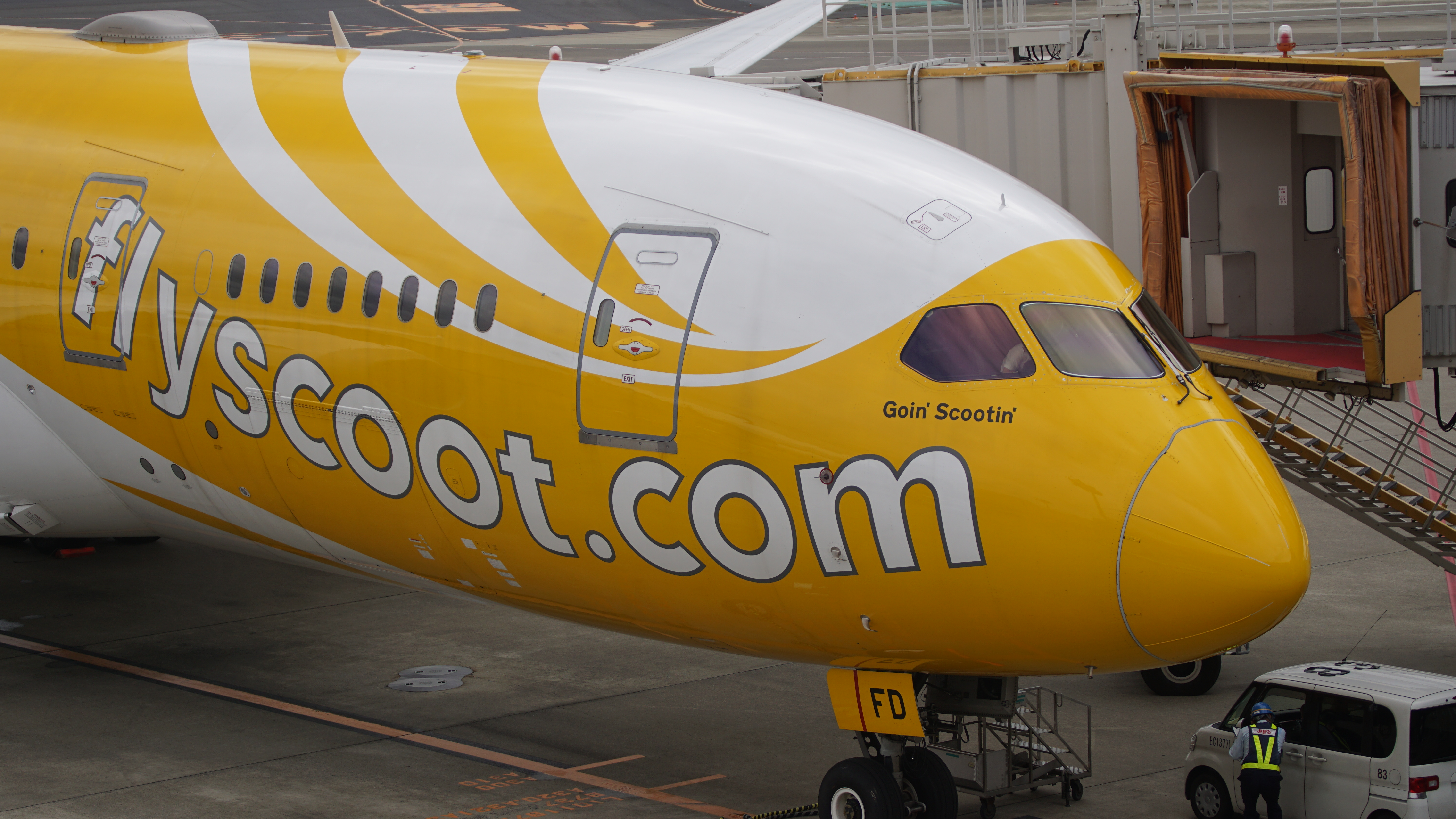 B 787 of Scoot airline in 2017